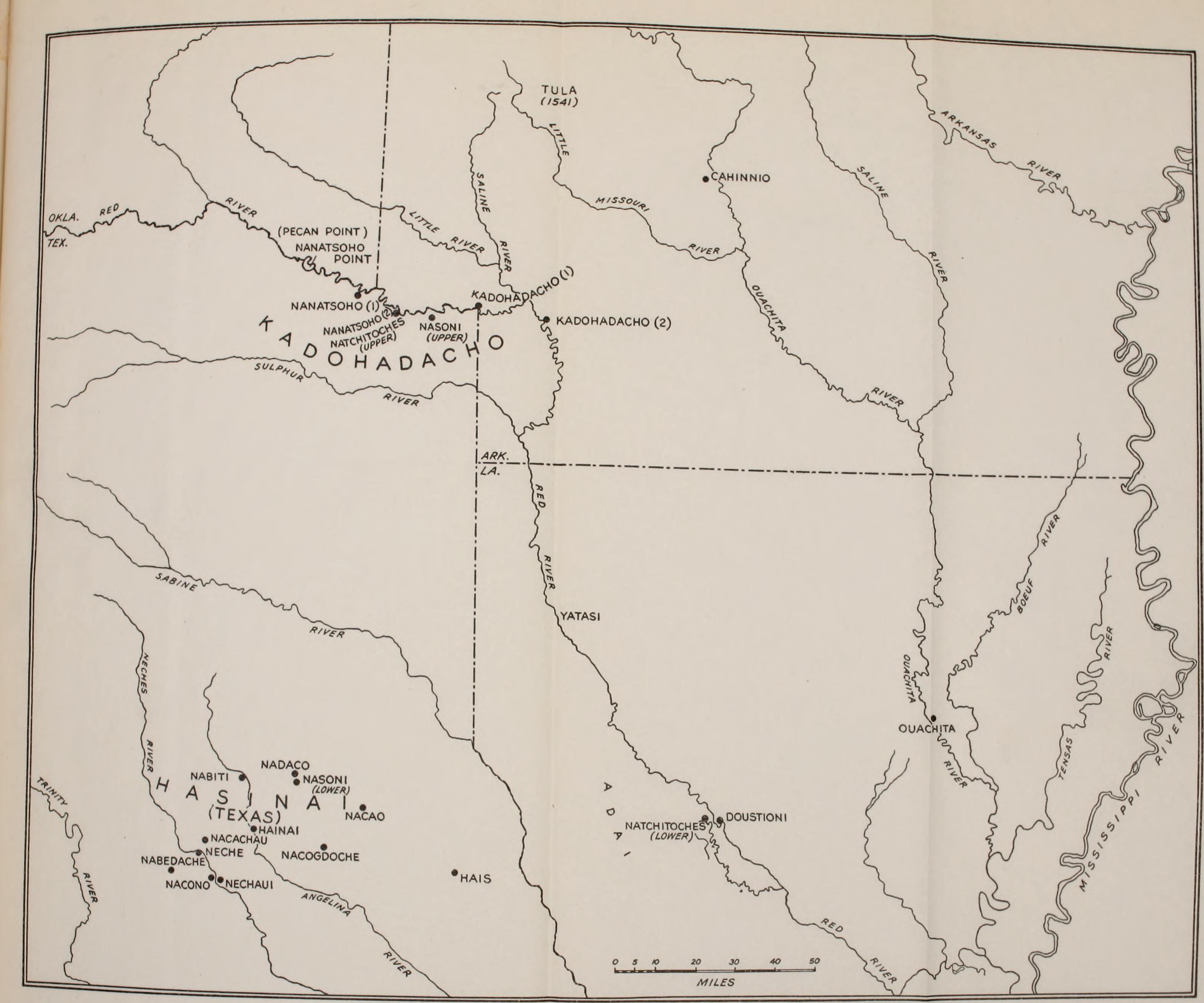 Title: Bulletin Year: 1901 (1900s) Authors: Smithsonian Institution. Bureau of American Ethnology Subjects: Ethnology Publisher: Washington : G.P.O. Text Appearing Before Image: 299671—42 (Face p. 8) Text Appearing After Image: Figure I.—Former distribution of the Caddo Indians. 299671—42 (Face p. 8) ? 1 ,(* SWANTON) CADDO HISTORY AND ETHNOLOGY The following are possible identifications: Joutel list Identity Douesdonqua Doustioni Dotchetonne People of Bayou Dauchite Sacahay6 Soacatino Daquio Dacayo River people Nouista Neches The following tribes listed as allies were non-Caddo people: Joutel list Identity Tanico Tunica Cappa Quapaw Tanquinno Tunica (?) Cassia Kichai Nadamin Sadamou (Apache or Tonkawa) Annaho Osage(?) Choumay Chouman or Shuman (Jumano) The following seem to be Caddo tribes but are listed as enemies:Joutel list Identity Nadaho Adai Nacassa Yatasi(?) Nahacassi Yatasi(?) Chaye Choye (a tribe placed by Tonty with the Yatasi) The other names either belong to non-Caddo people or cannotbe identified (Margry, 1875-1886, vol. 3, pp. 409-410). Jesus Maria de Casanas, after enumerating the nine tribes whichmade up the Hasinai nation, gives another list which partly repeatsthe first but contains som